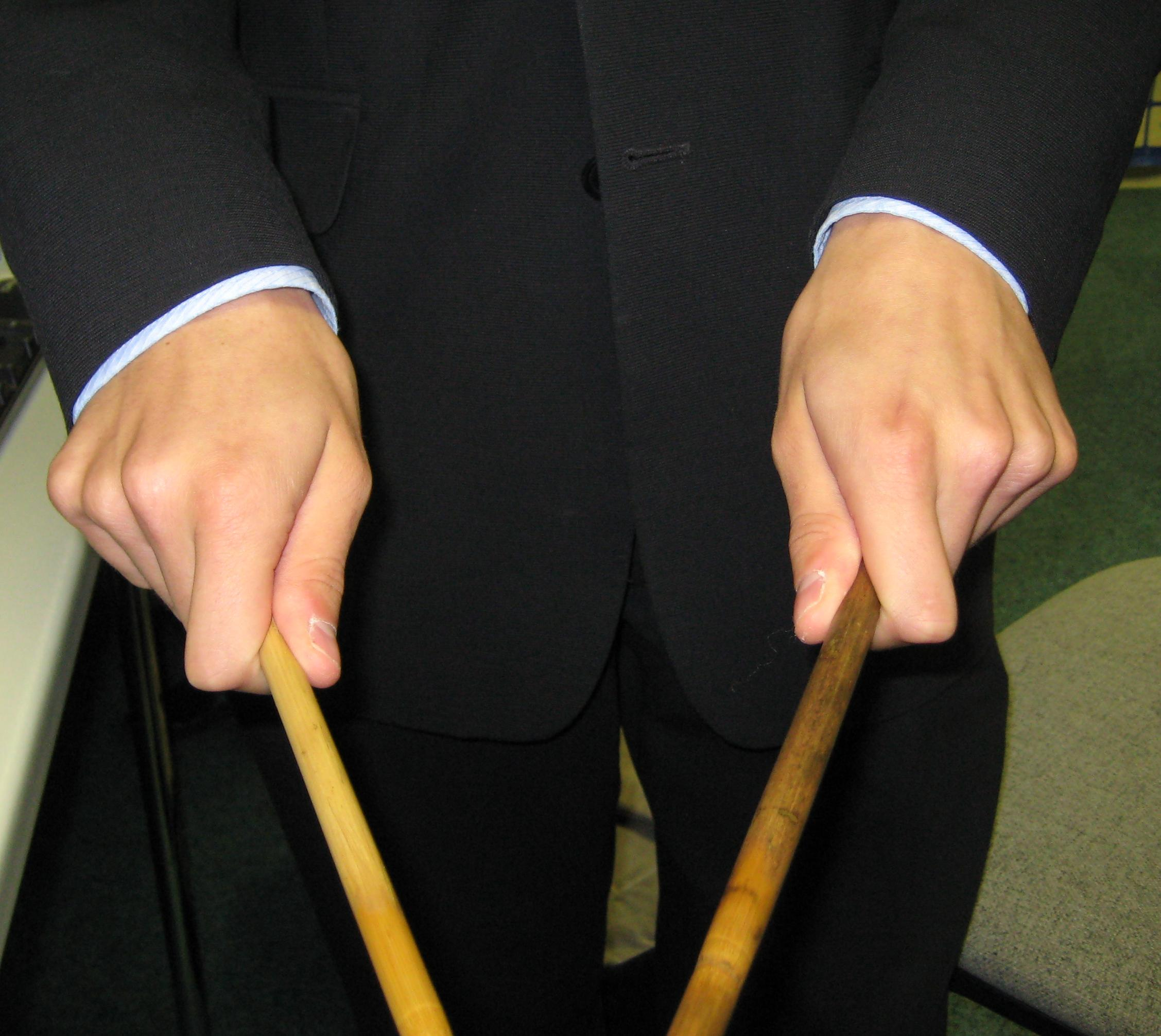 Percussion mallets held with Matched Grip